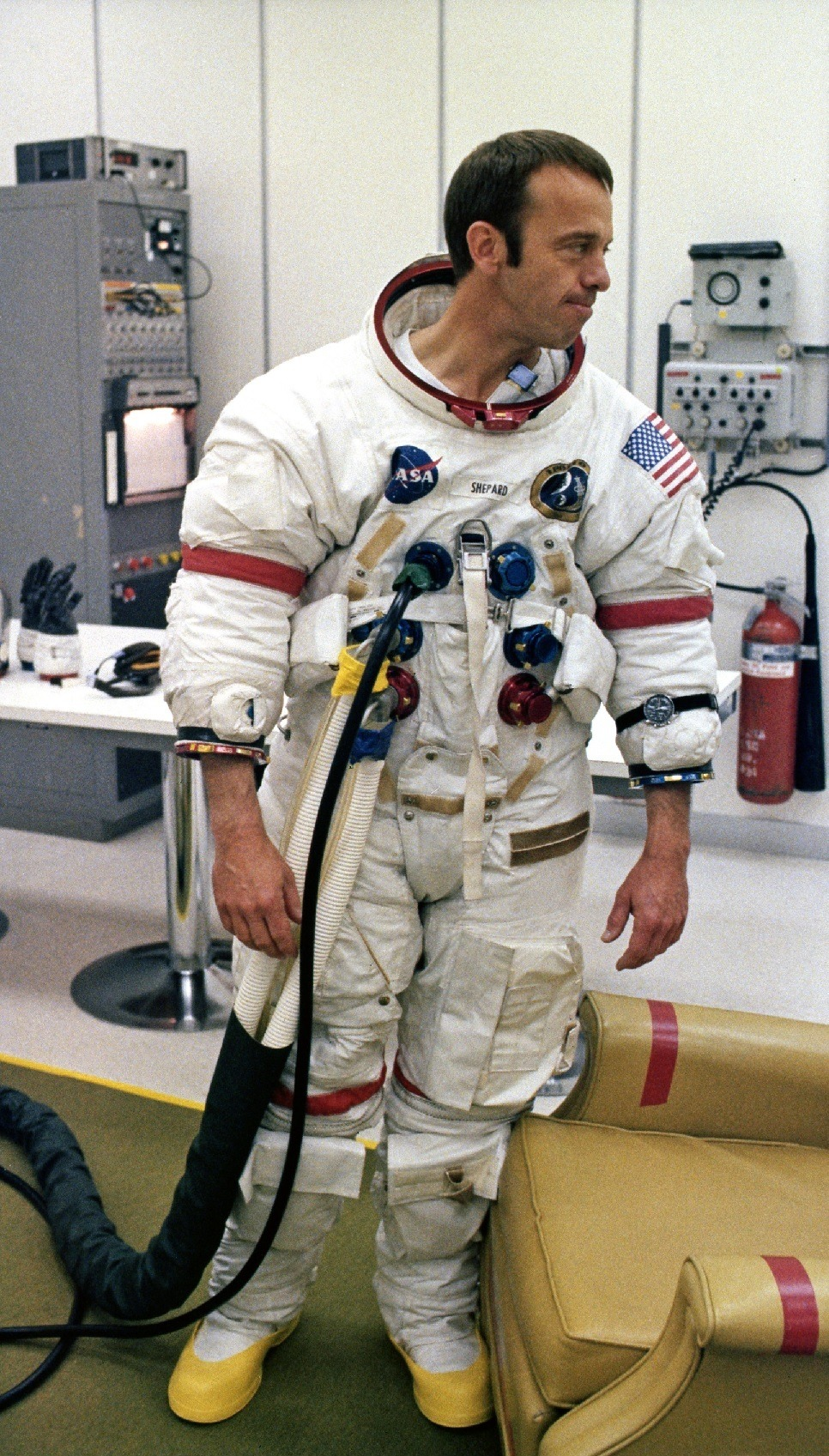 Alan Shepard during Apollo 14 suit-up. 31 January 1971.